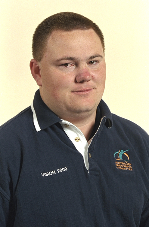 Portrait of Australian athletics competitor Stephen Eaton, 2000 Australian Paralympic Team athlete